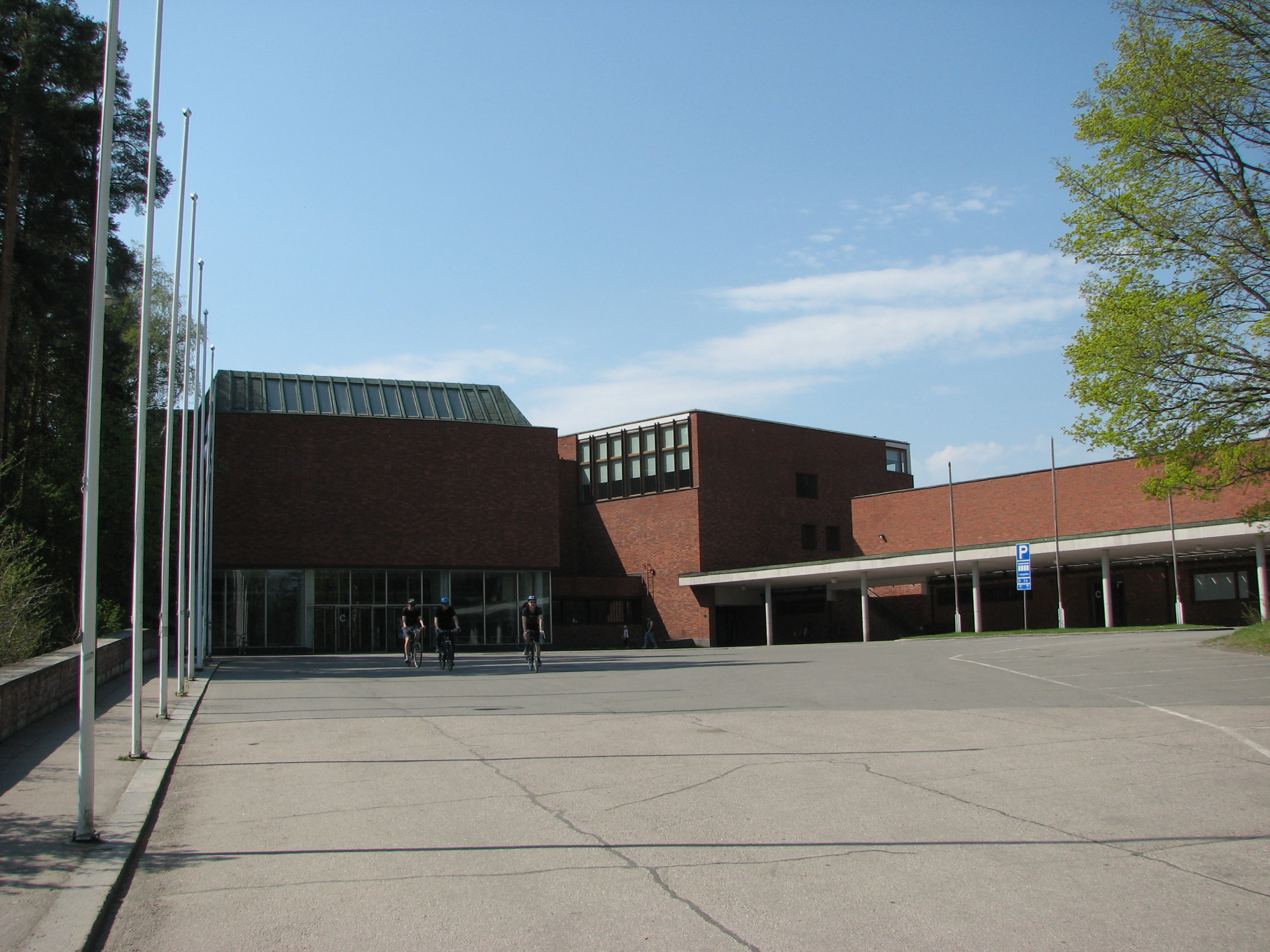 The main building, Capitolium, of the University of Jyväskylä, designed by Alvar Aalto.